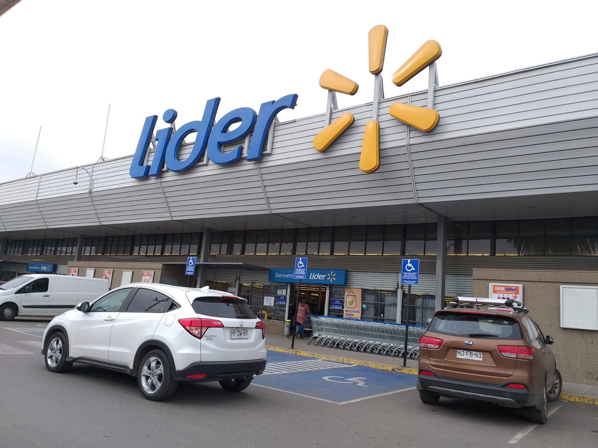 Walmart Chile Talca